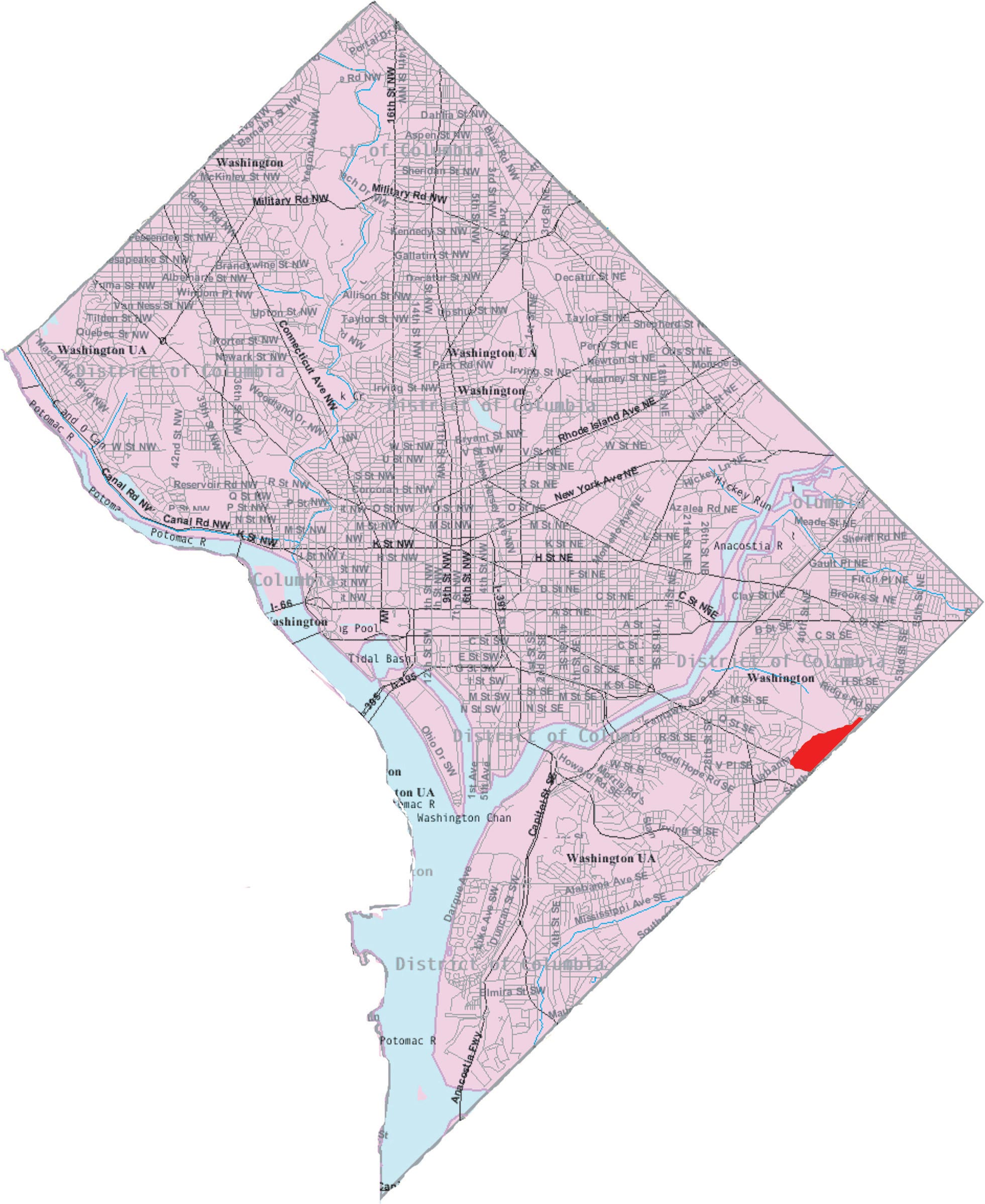 This image is a modified version of a self-generated reference map from the U.S. Census Bureau's American Factfinder at by Wikipedia user Msclguru.